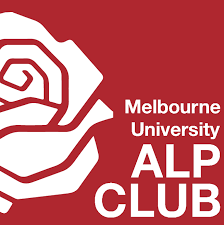 This is the logo of the University of Melbourne ALP Club in Melbourne, Australia. It is a student political club affialted to the student union.